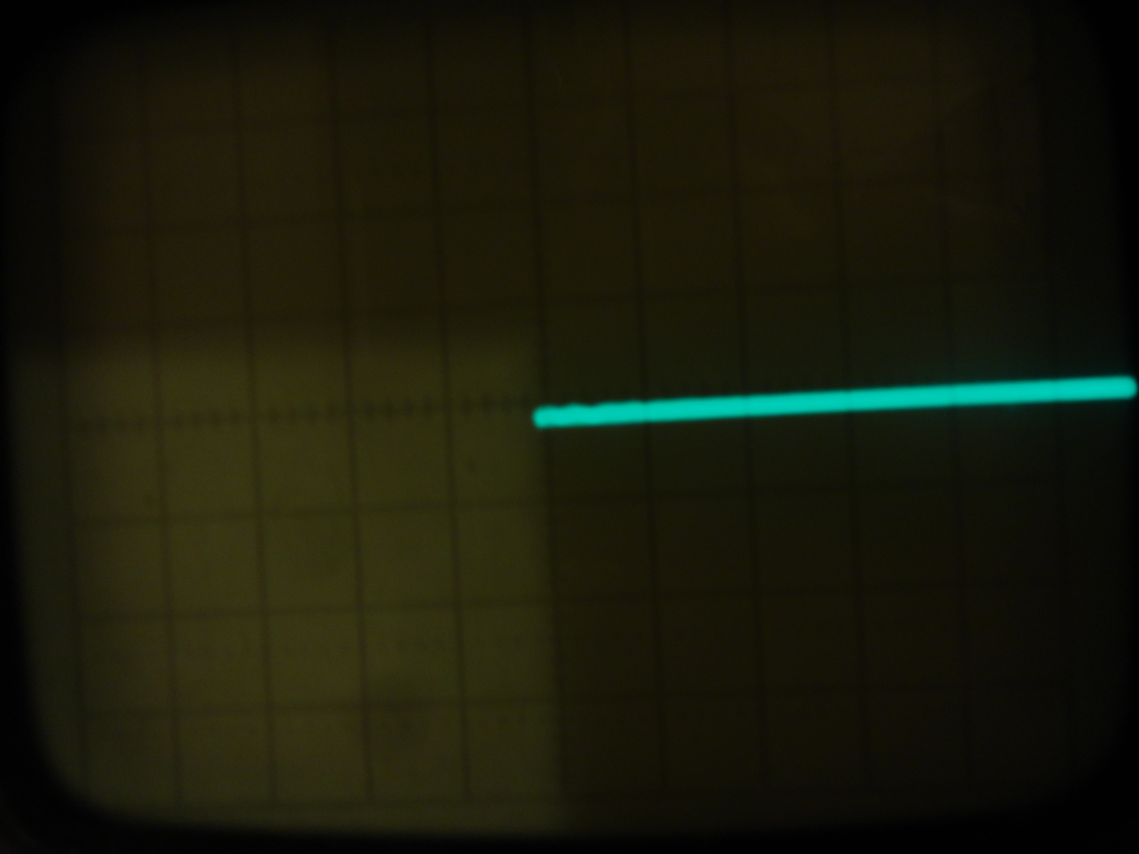 Oscilloscope, phosphor screen